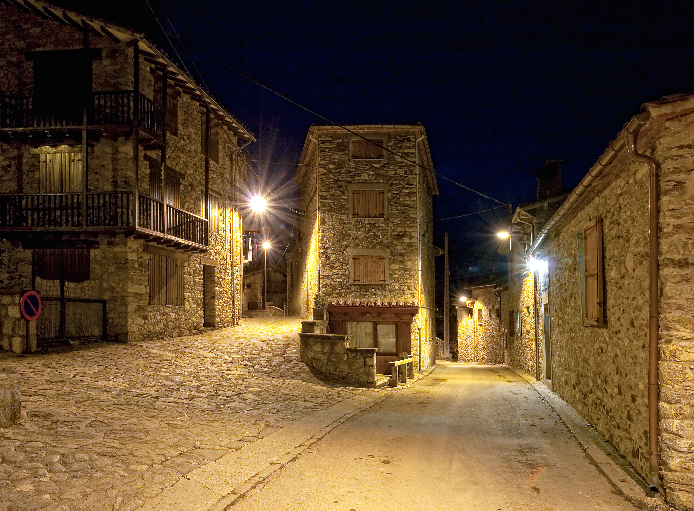 Campelles streets (Catalonia, Spain)